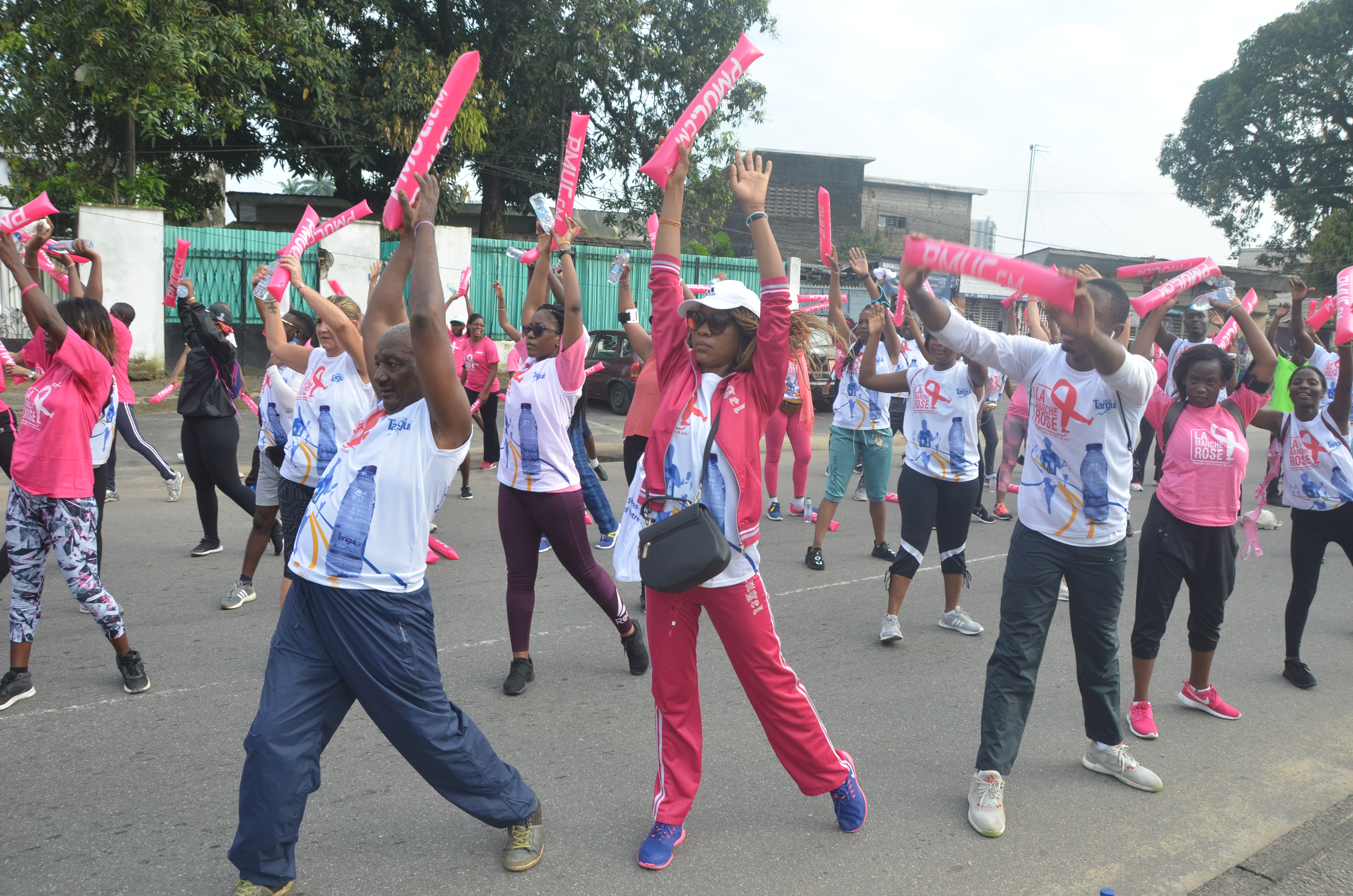 This is an image with the theme "Play" from: Cameroon